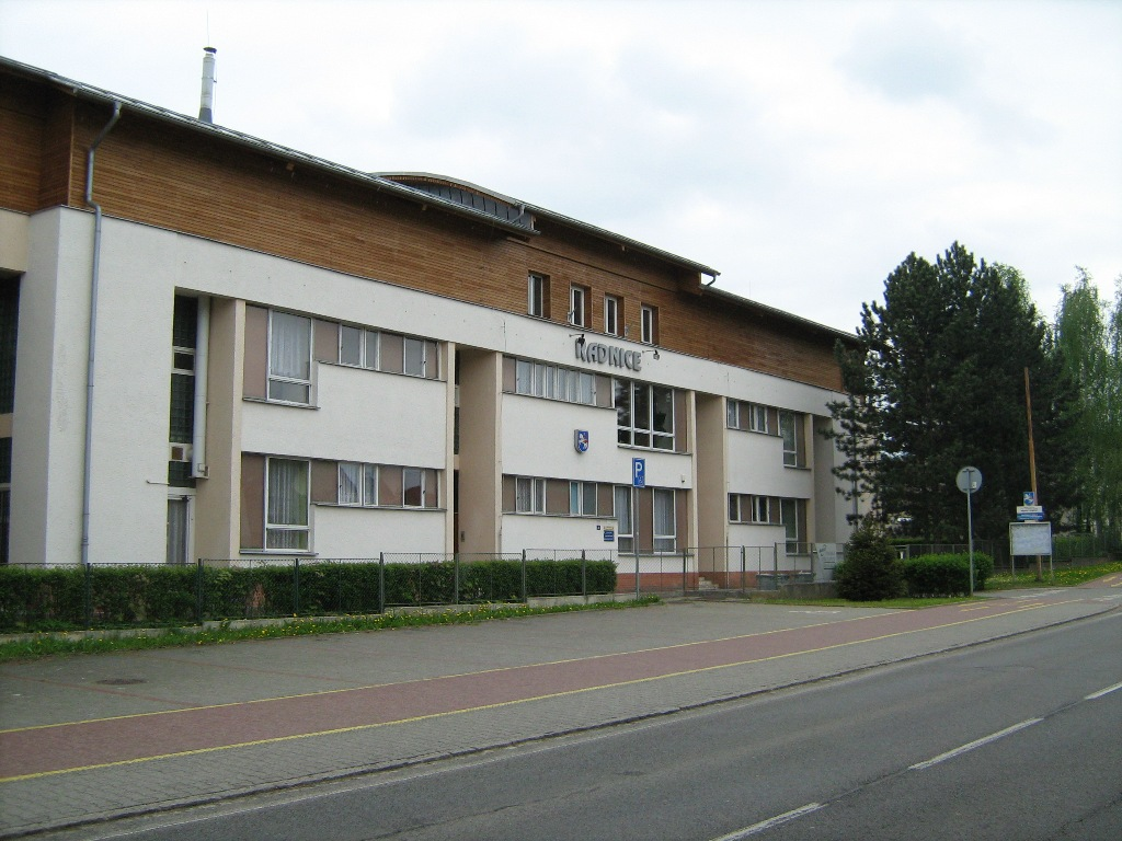 Townhall in Martinov, Ostrava